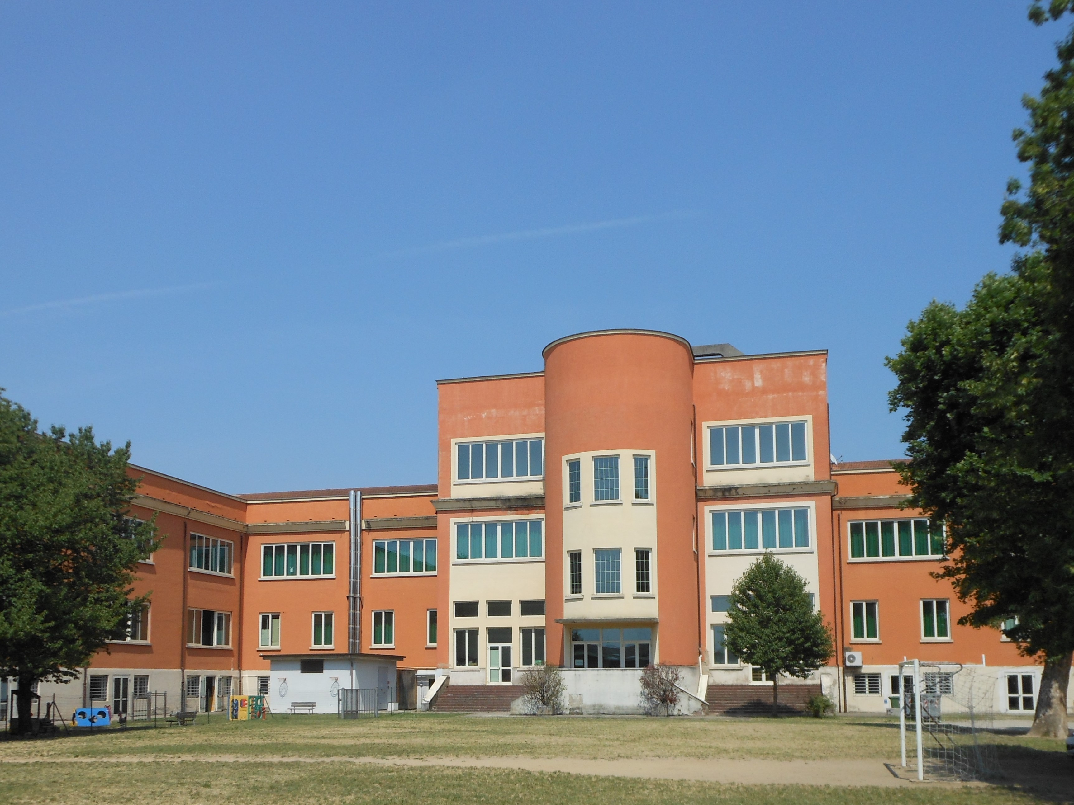 Primary school Mortara - Italy - back side